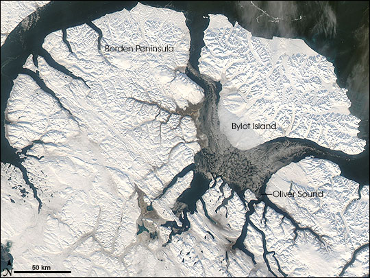 Sirmilk National Park, Baffin Island